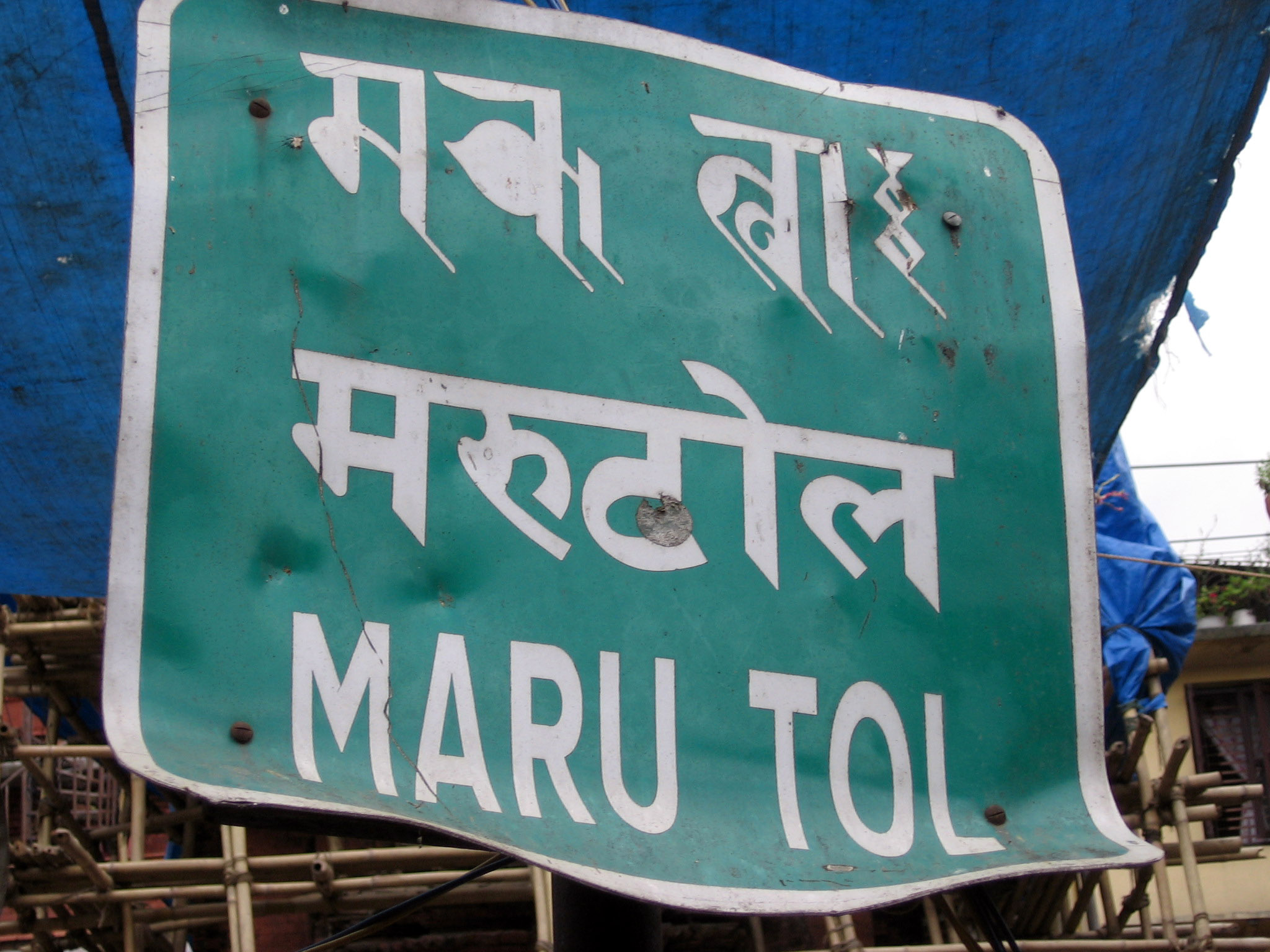 Maru Tol street sign in three scripts (Ranjana, Devanagari and English) in Kathmandu.